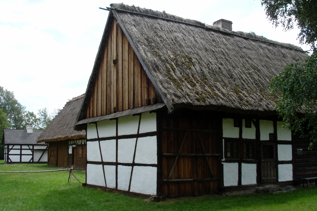 Museum des Oppelner Dorfes - Doppelhaus aus dem 18. Jahrhundert im Freilichtmuseum.